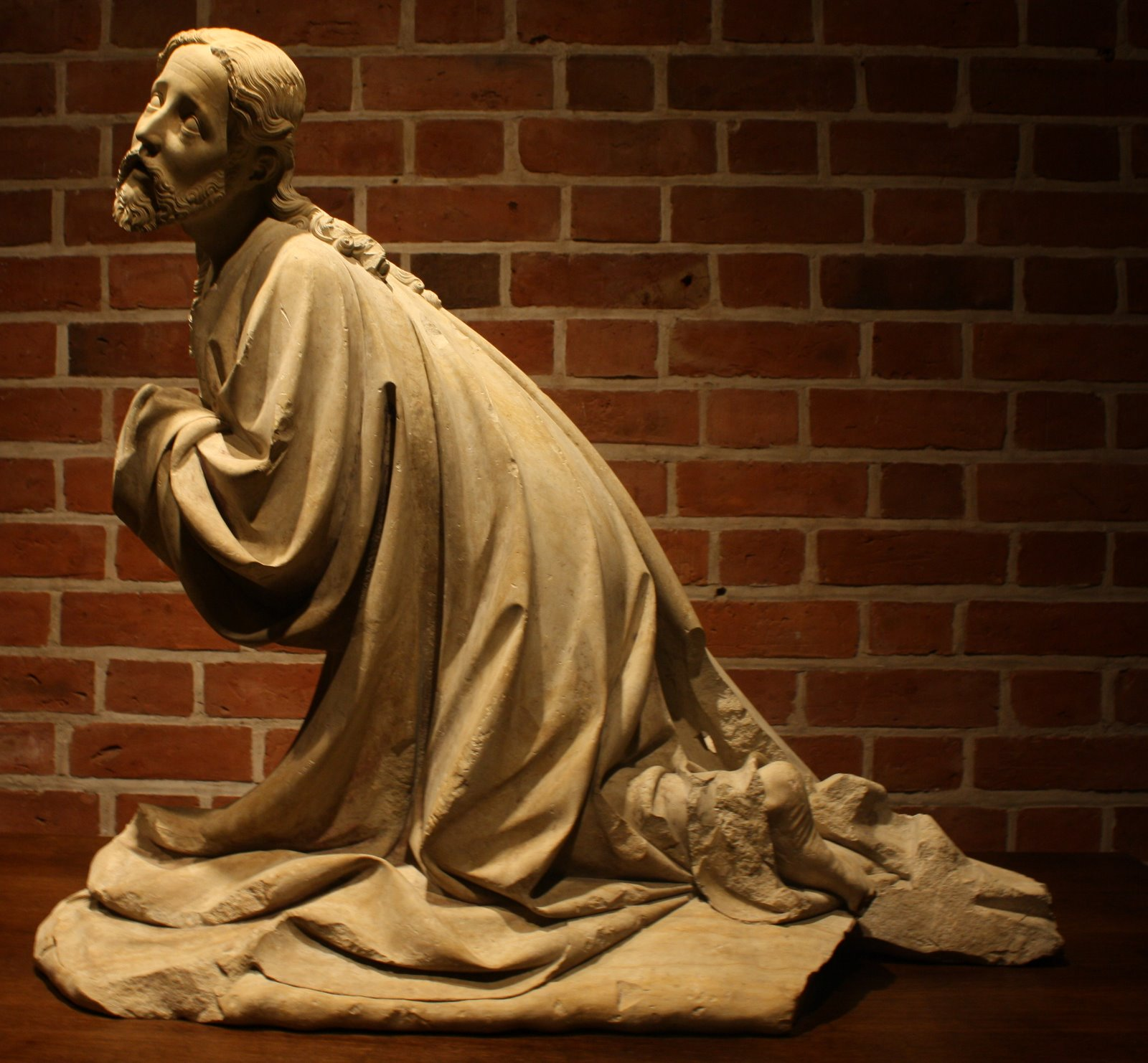 Malbork, Castle of Teutonic Order. Castle Museum. Gothic sculpture "Christ on the Mount of Olives", ca 1390, Master of Beautiful Madonna from Toruń(?)